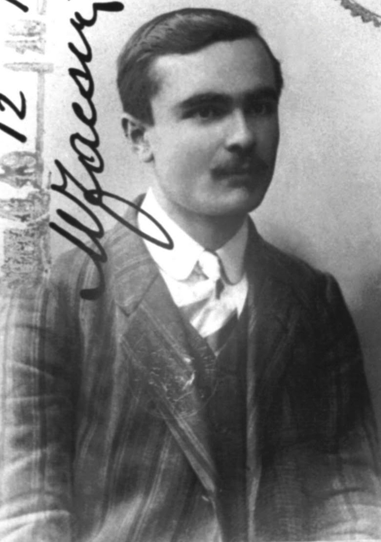 Romanian physician Grigore T. Popa, student card photograph.